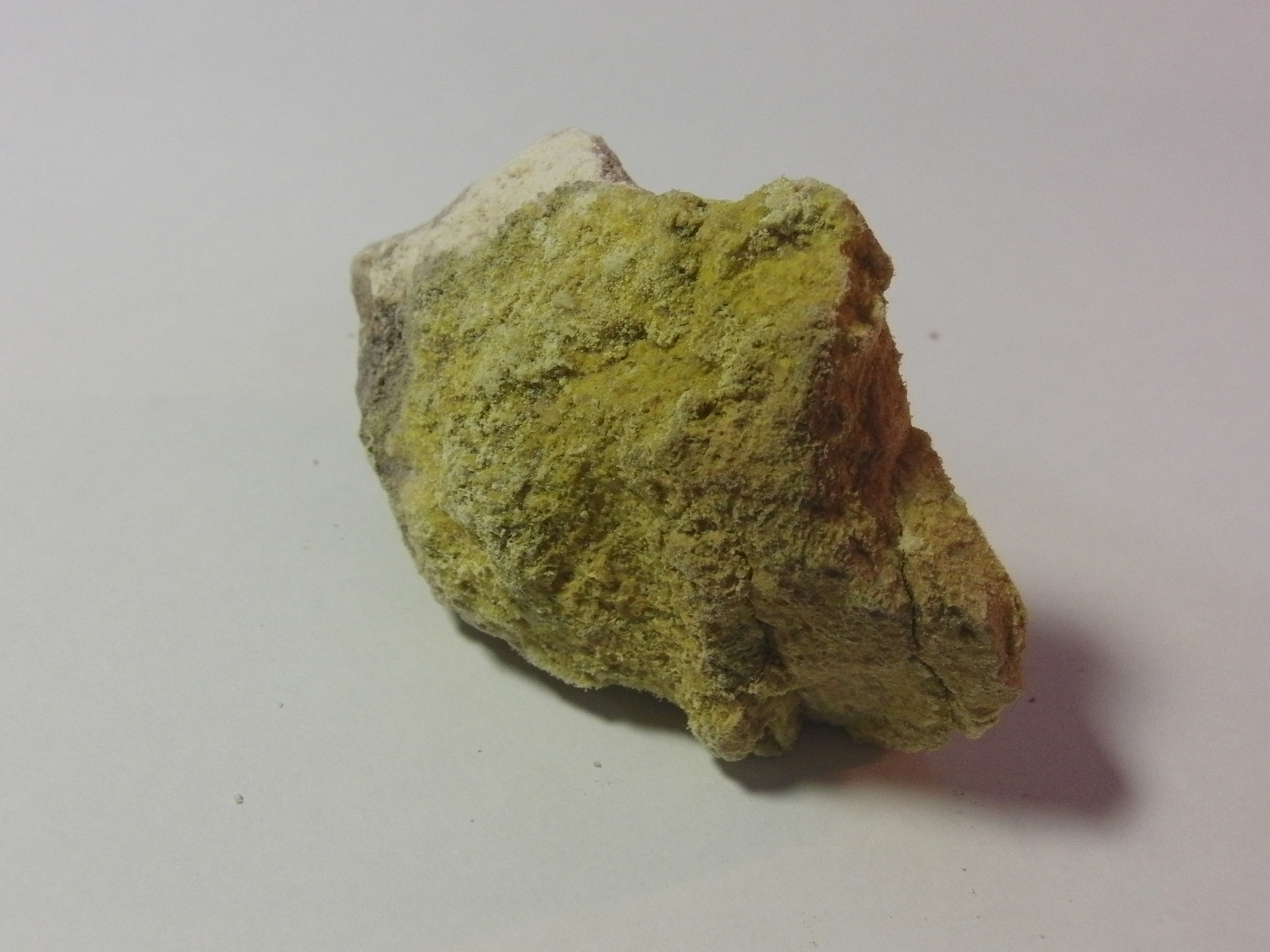 Sulfur minerals (from Beitou , Republic of China)